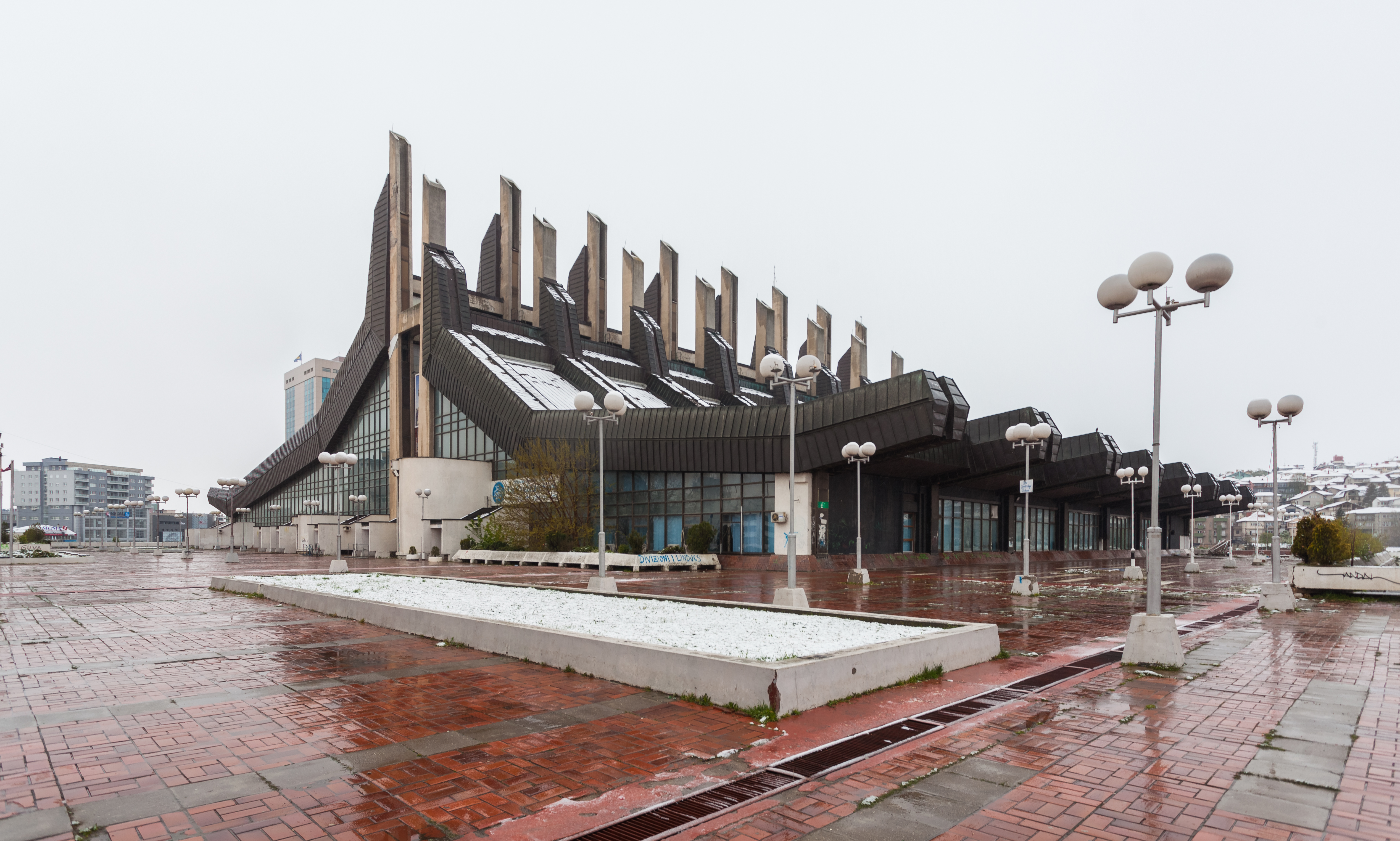 Palace of Youth and Sports, Pristina, Kosovo